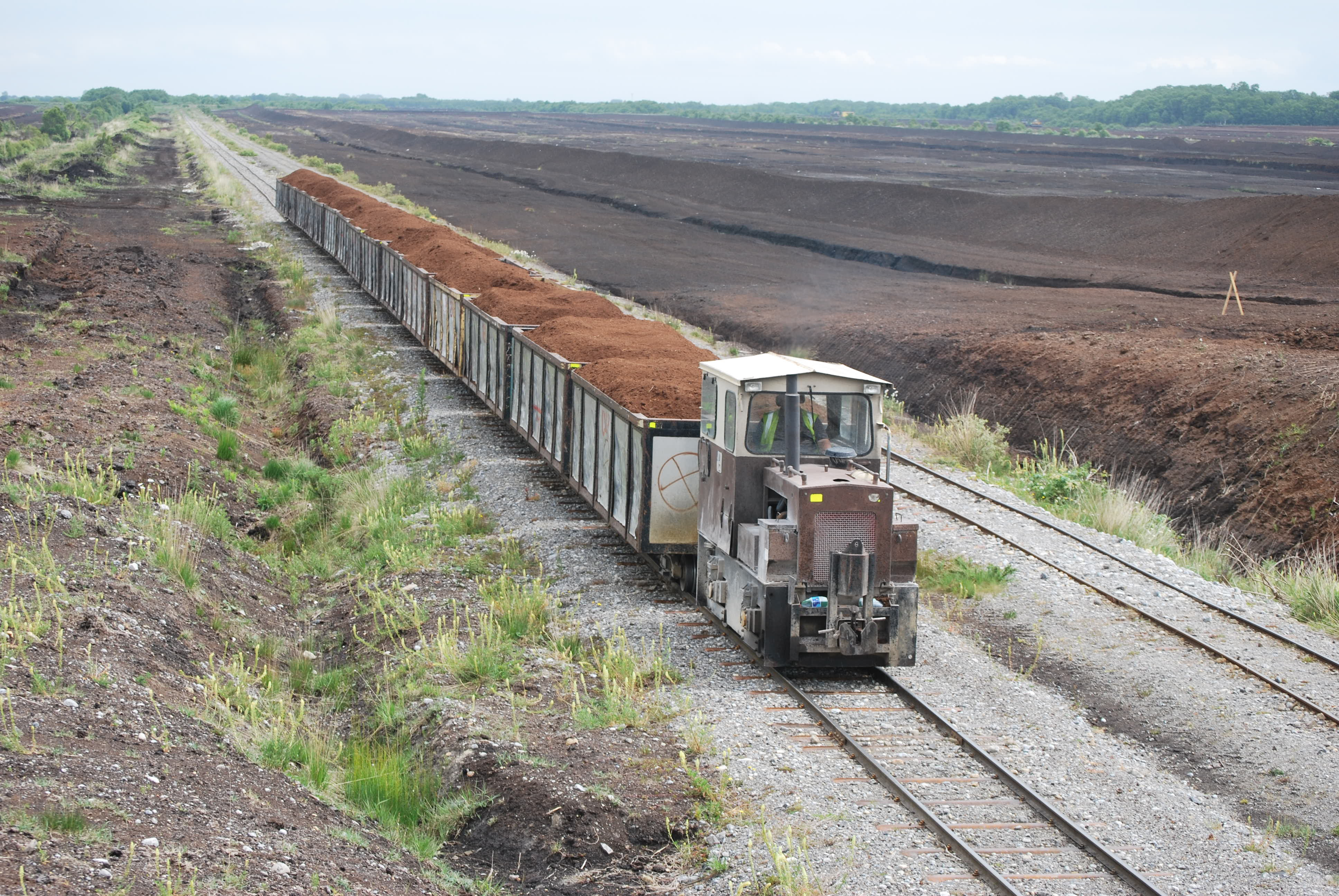 Bord na Mona - "The Bog Train" - At Edenderry, Co. Offaly, Ireland - heading towards Edenderry Powerstation with milled peat. This is a narrow guage railway build on the bog lands.